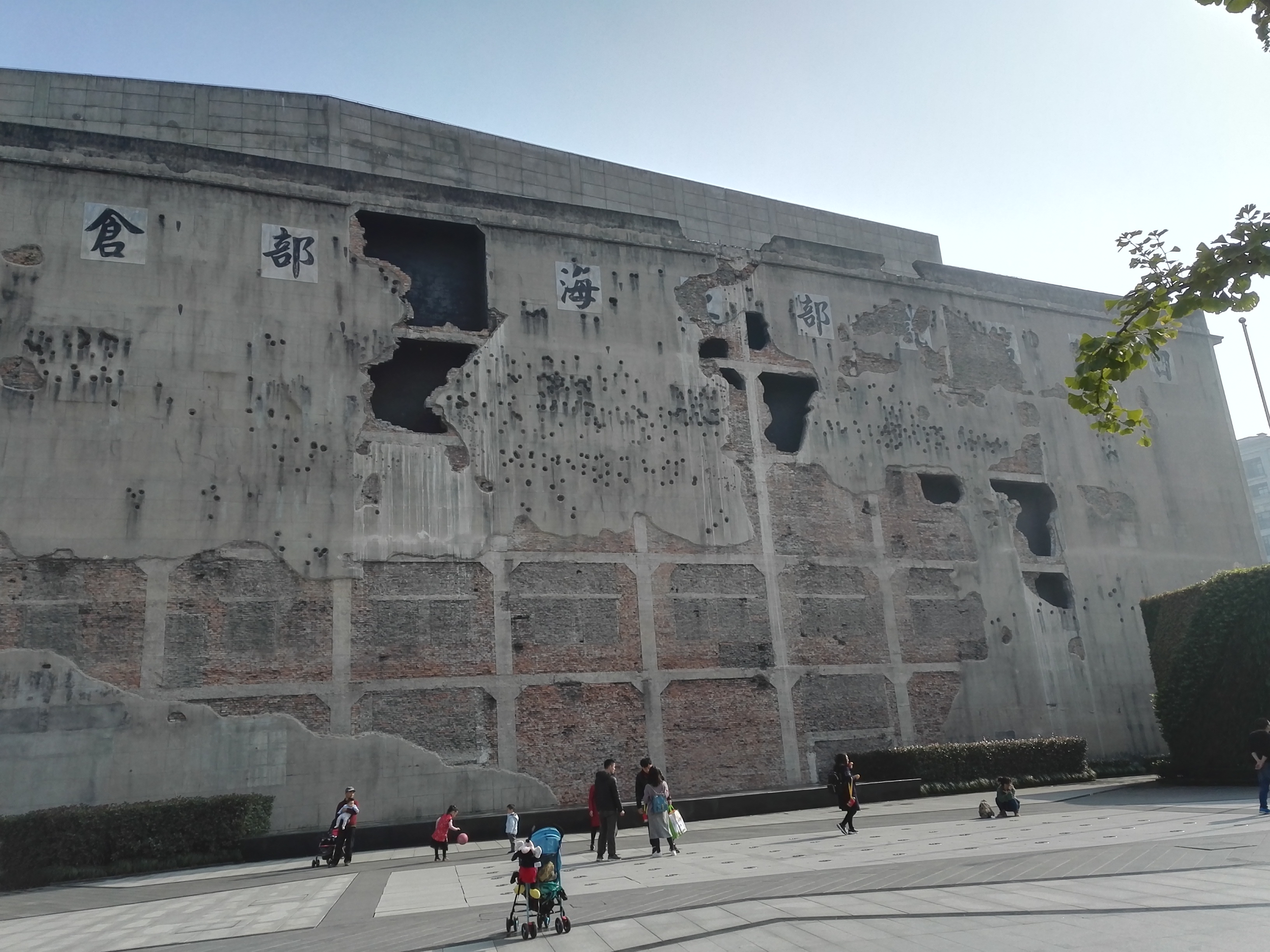 Sihang Warehouse West Wall 中文（中国大陆）: 四行仓库西侧山墙